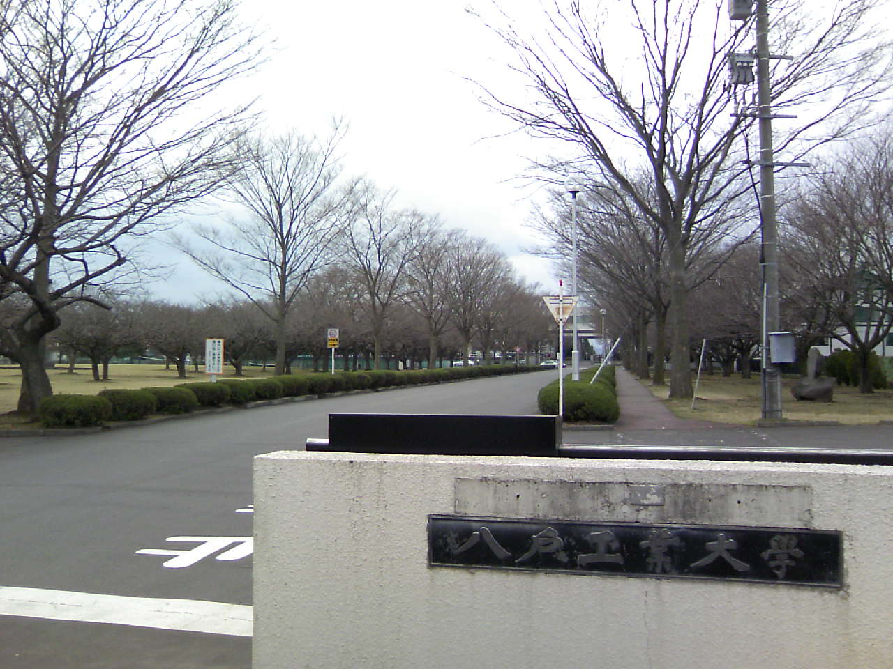 私立八戸工業大学・正門（青森県八戸市） (Hachinohe Institute of Technology - HACHINOHE, AOMORI, JAPAN)